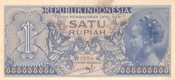 Scan of an Indonesian Rupiah banknote.